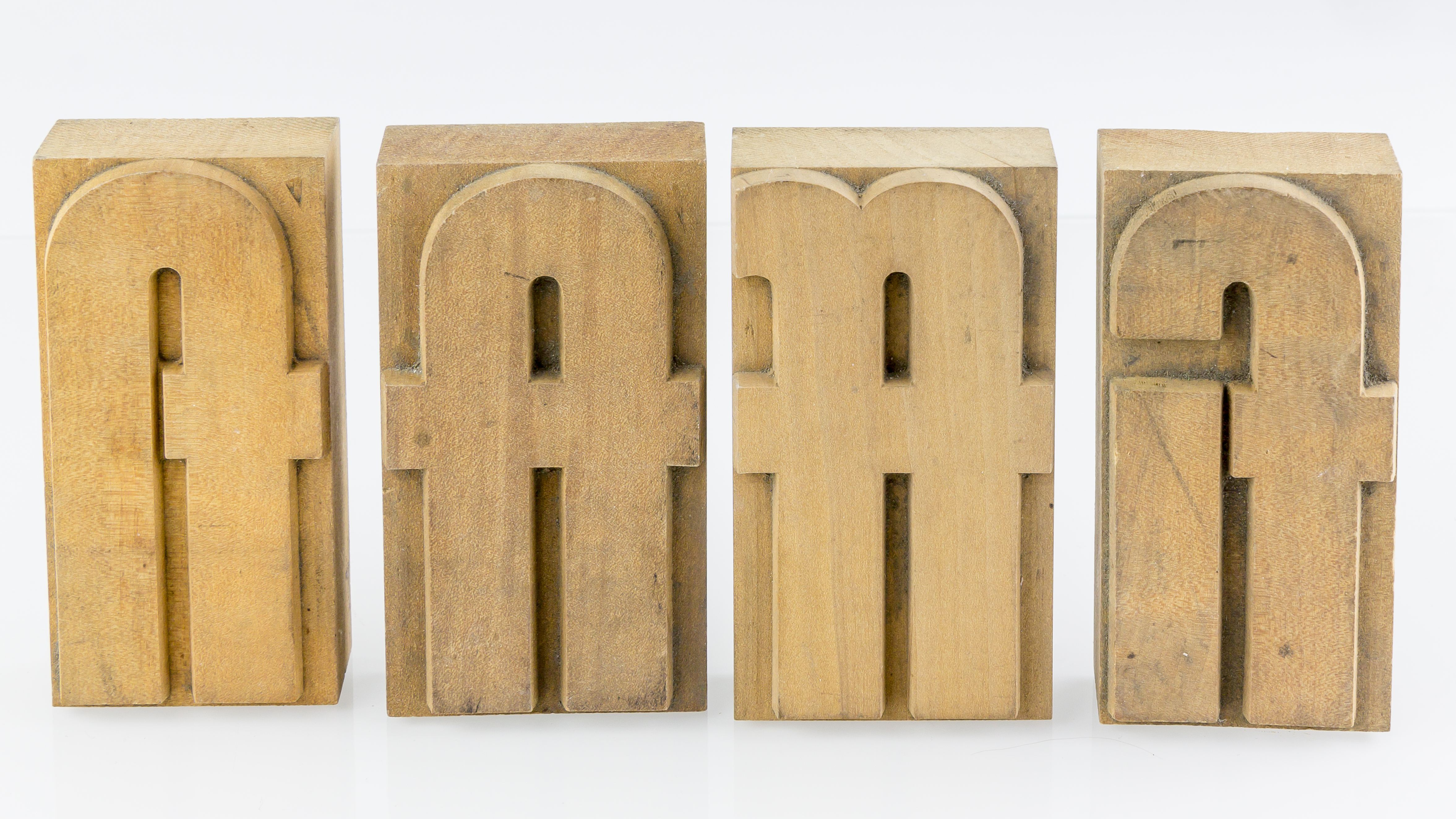 Wooden movable types with ligatures (from right to left) fi, ff, ft, fl; body height 25 Cicero = 300 Didot points = 112,8 mm